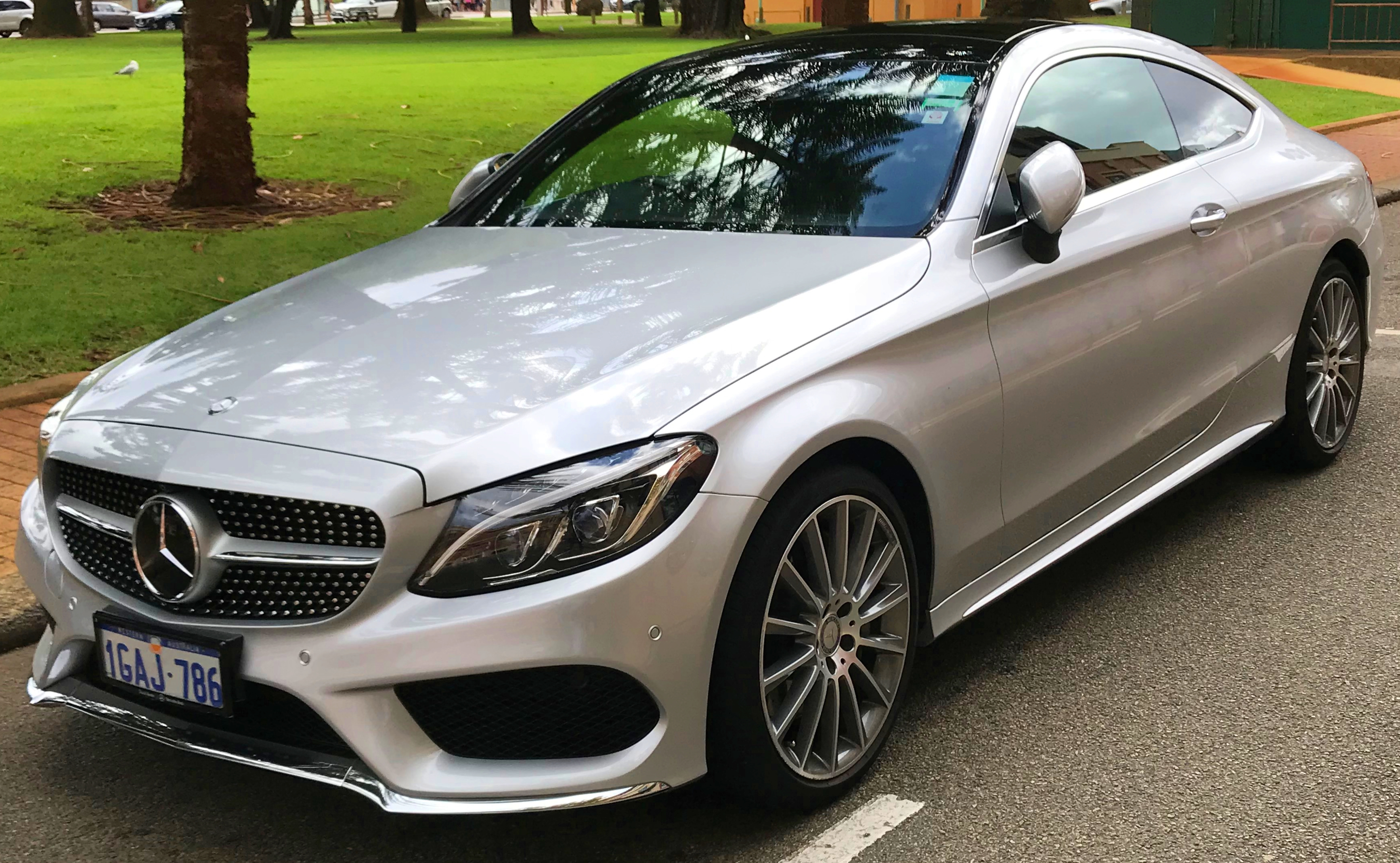 2016 Mercedes-Benz C 300 (C 205) coupe. Photographed in Fremantle, Western Australia, Australia.